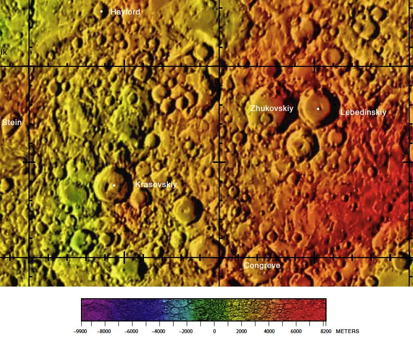 Part of the USGS far side lunar chart